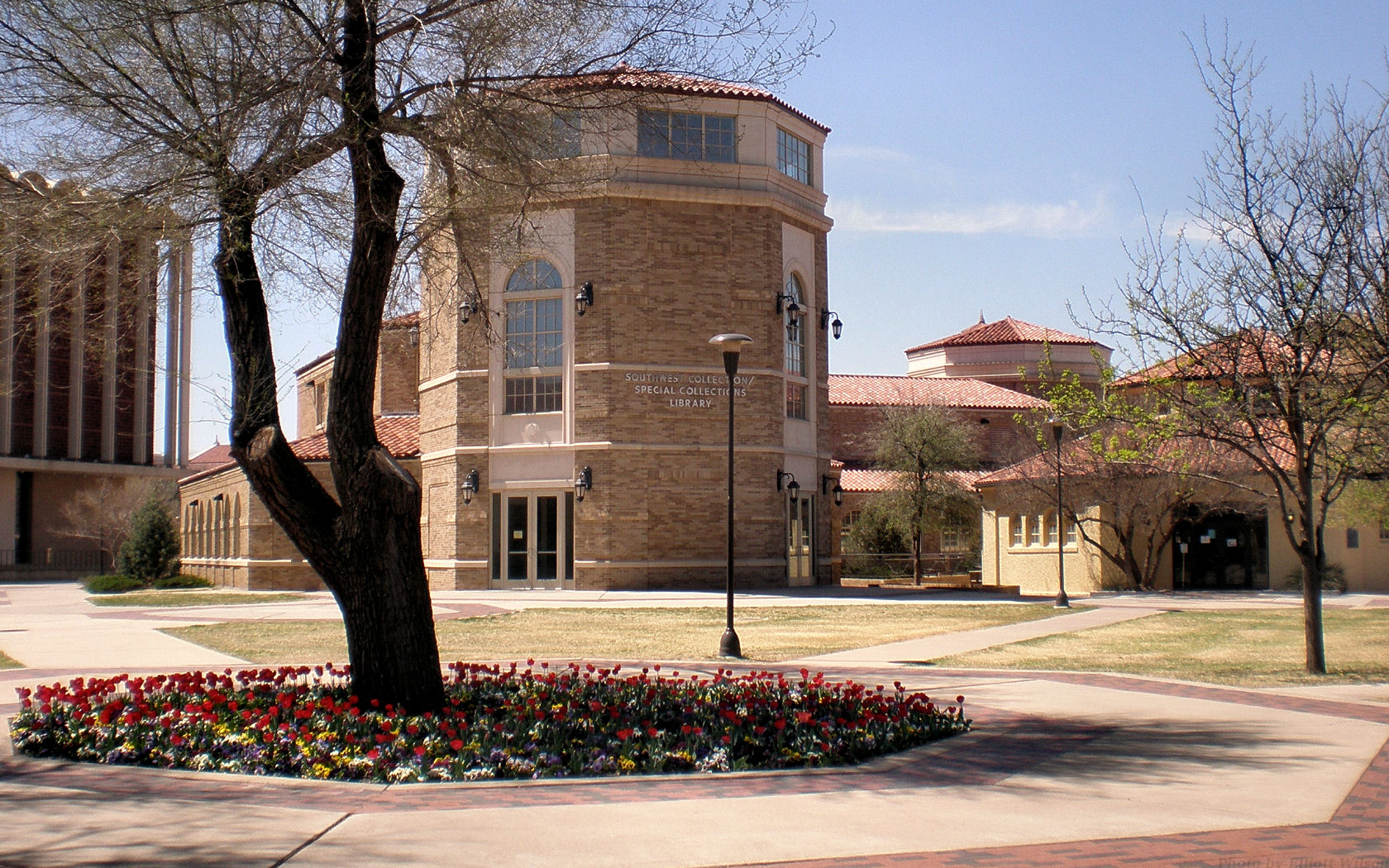 Description: Southwest Collections/Special Collections Library at Texas Tech University in Lubbock, Texas